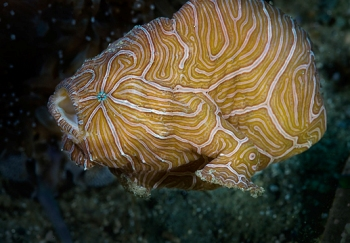 Psychedelic frogfish (Histiophryne psychedelica). For a higher resolution, contact David Hall [1]. This photo illustrates the frogfish's jet propulsion.